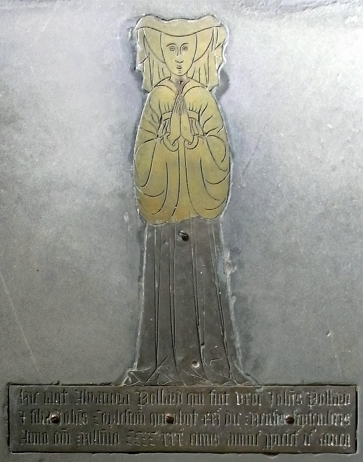 Monumental brass of Alyanora Pollard (d.1430), St Giles in the Wood parish church, Devon. Only the original lower half of the female figure has survived, the top half being an accurate modern replacement, with the Latin inscription below it: Hic jacet Alyanora Pollard qui fuit uxor Joh(ann)is Pollard et filia Joh(ann)is Copleston qui obiit xxi die mensis Septembris Anno d(o)m(in)i Mill(ensi)mo CCCCXXX cuius animae propitietur Deus Amen.( ("Here lies Eleanor / Alianore Pollard who was the wife of John Pollard and daughter of John Copleston who died on the 21st day of the month of September in the One thousandth four hundredth and thirtieth year of Our Lord of whose soul may God look upon with favour Amen".)